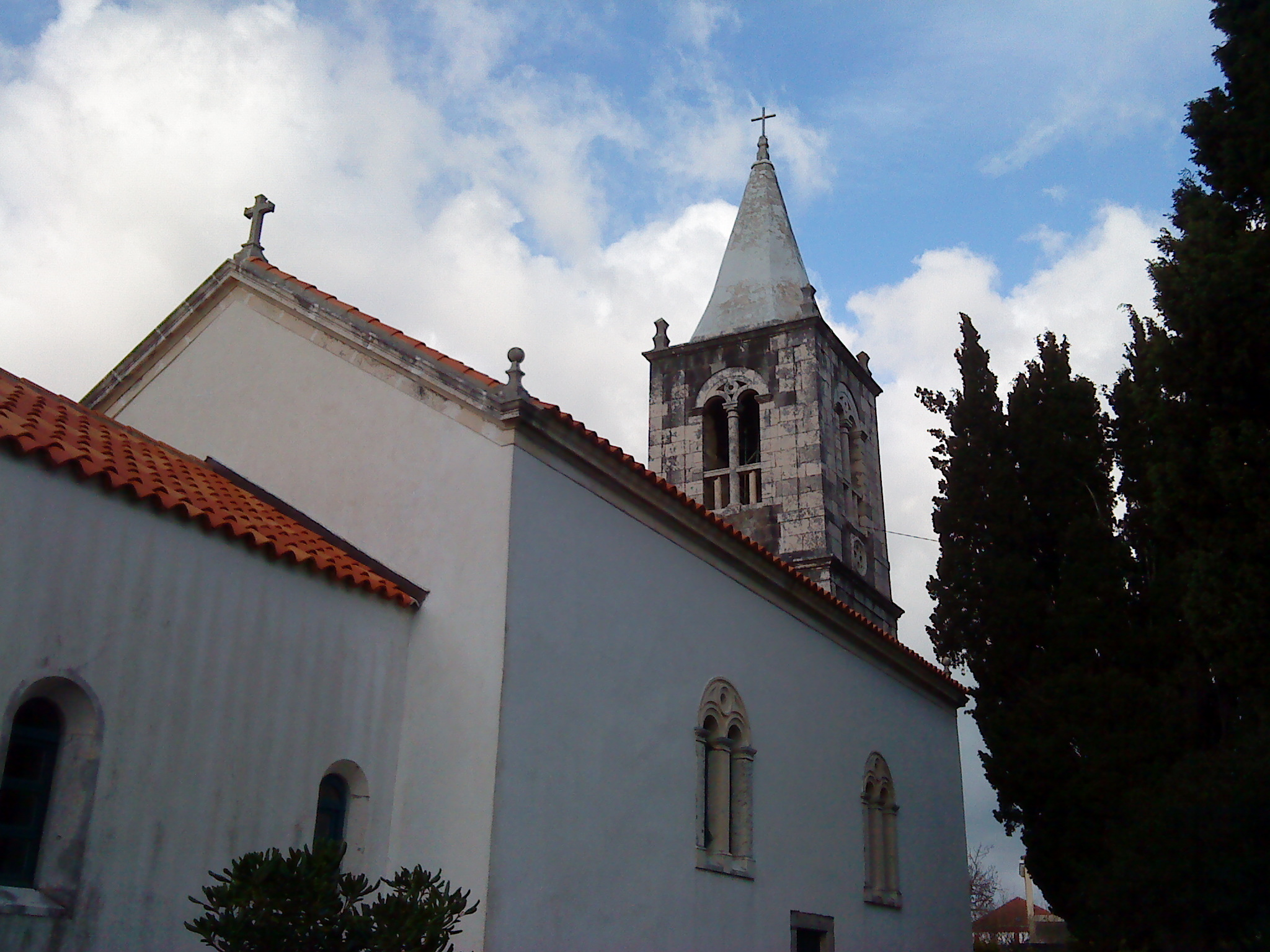 Our Little Lady church in Sreser